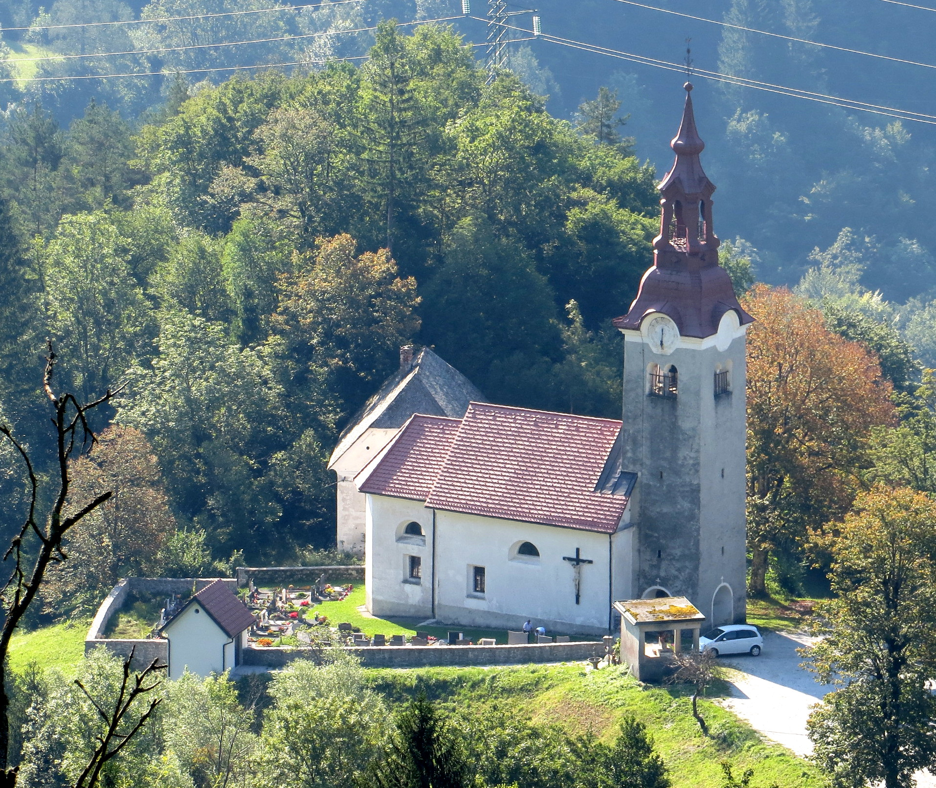 Saint Ubald's Church in Orehek, Municipality of Cerkno, Slovenia